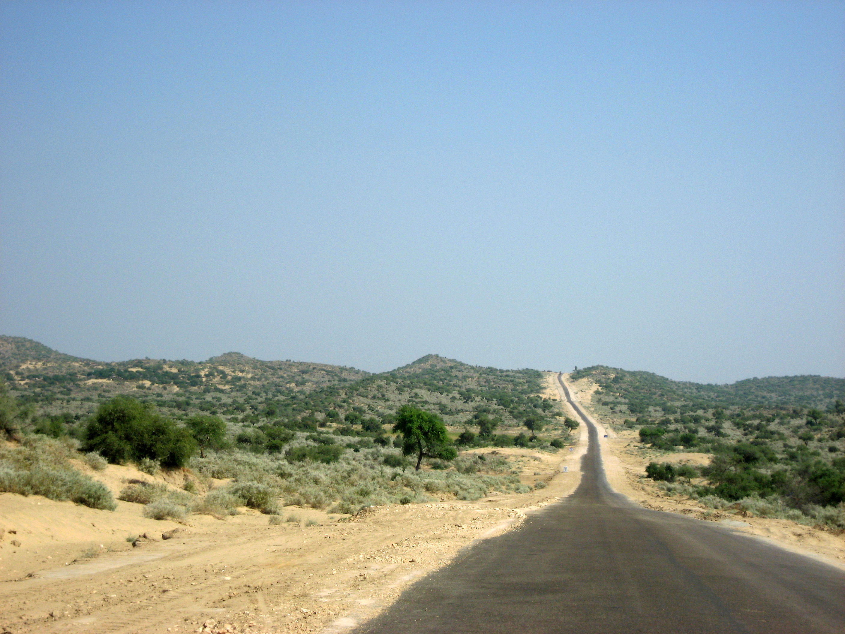 Due to severe weather conditions, there are few highways in the Thar desert. Shown here is a road in Tharparkar District of Sindh, Pakistan.